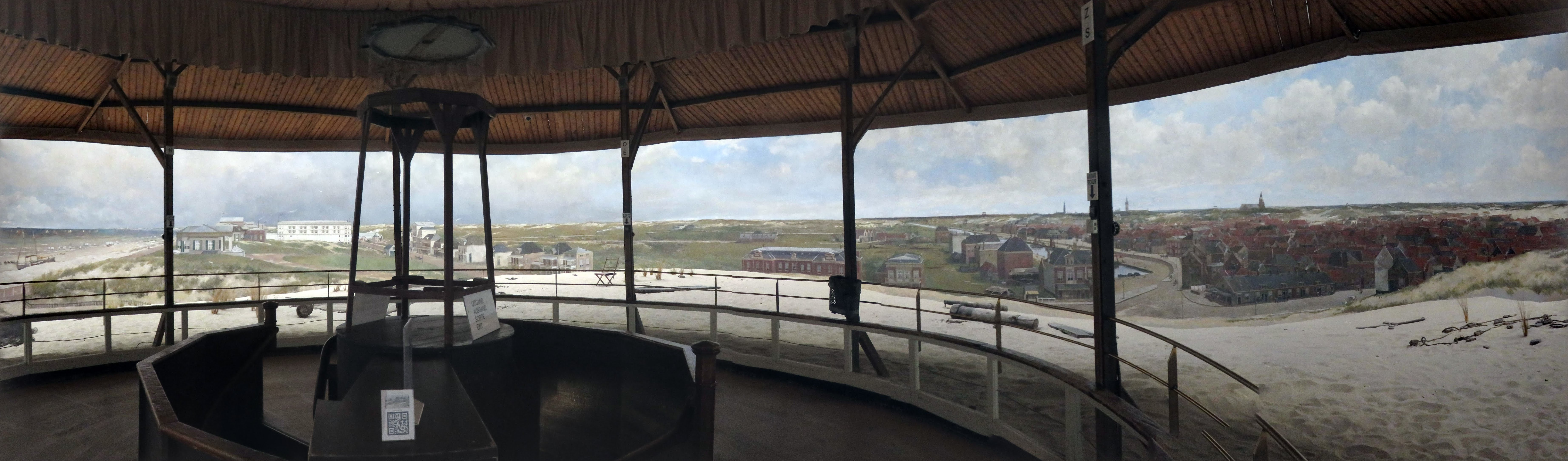 Panorama Mesdag